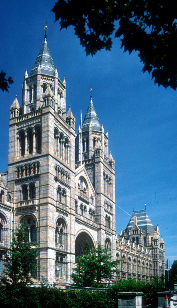 British Natural History Museum in London.